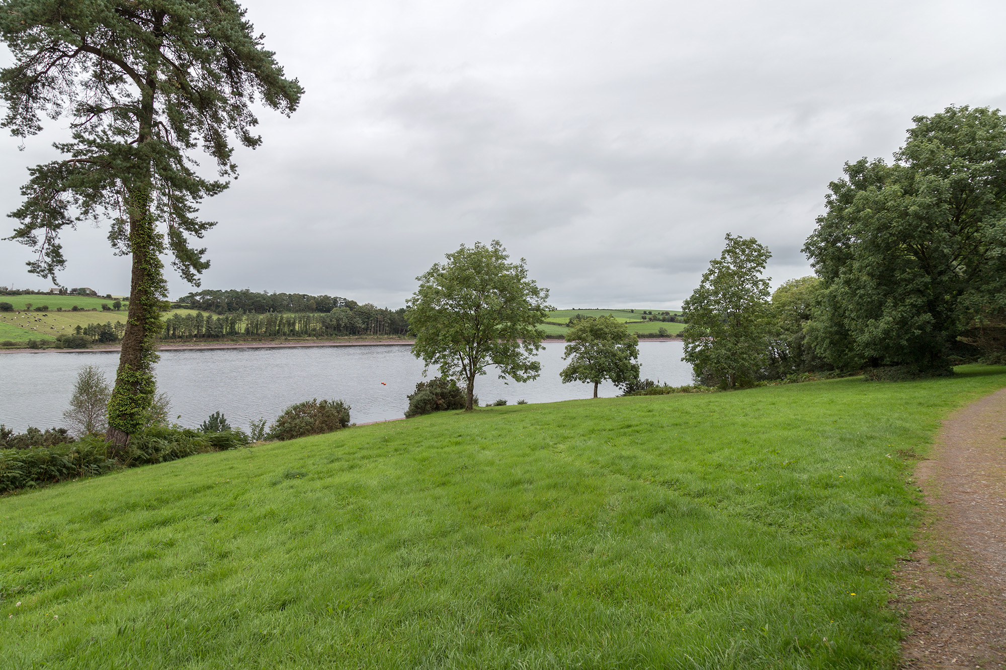 Taiscumar Reservoir from Farran Forest